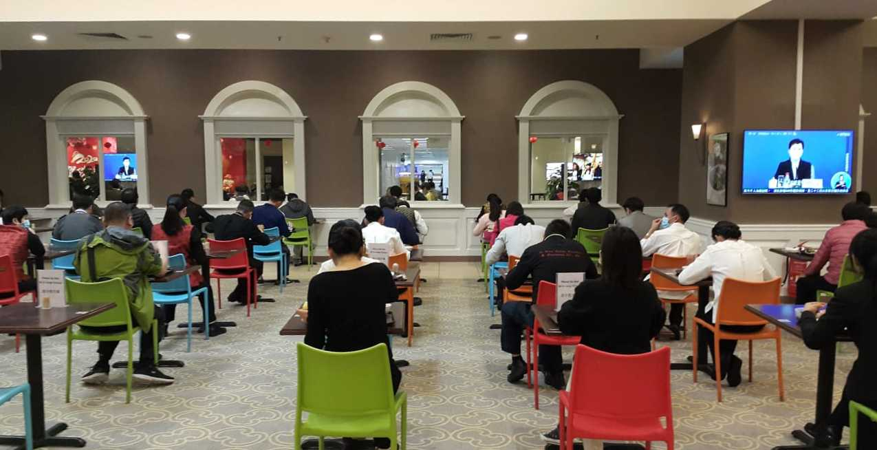 To maintain social distance, there are only independent seats. People in canteen just like there are having exams.